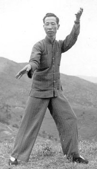 Young YipShui poses for KungFu